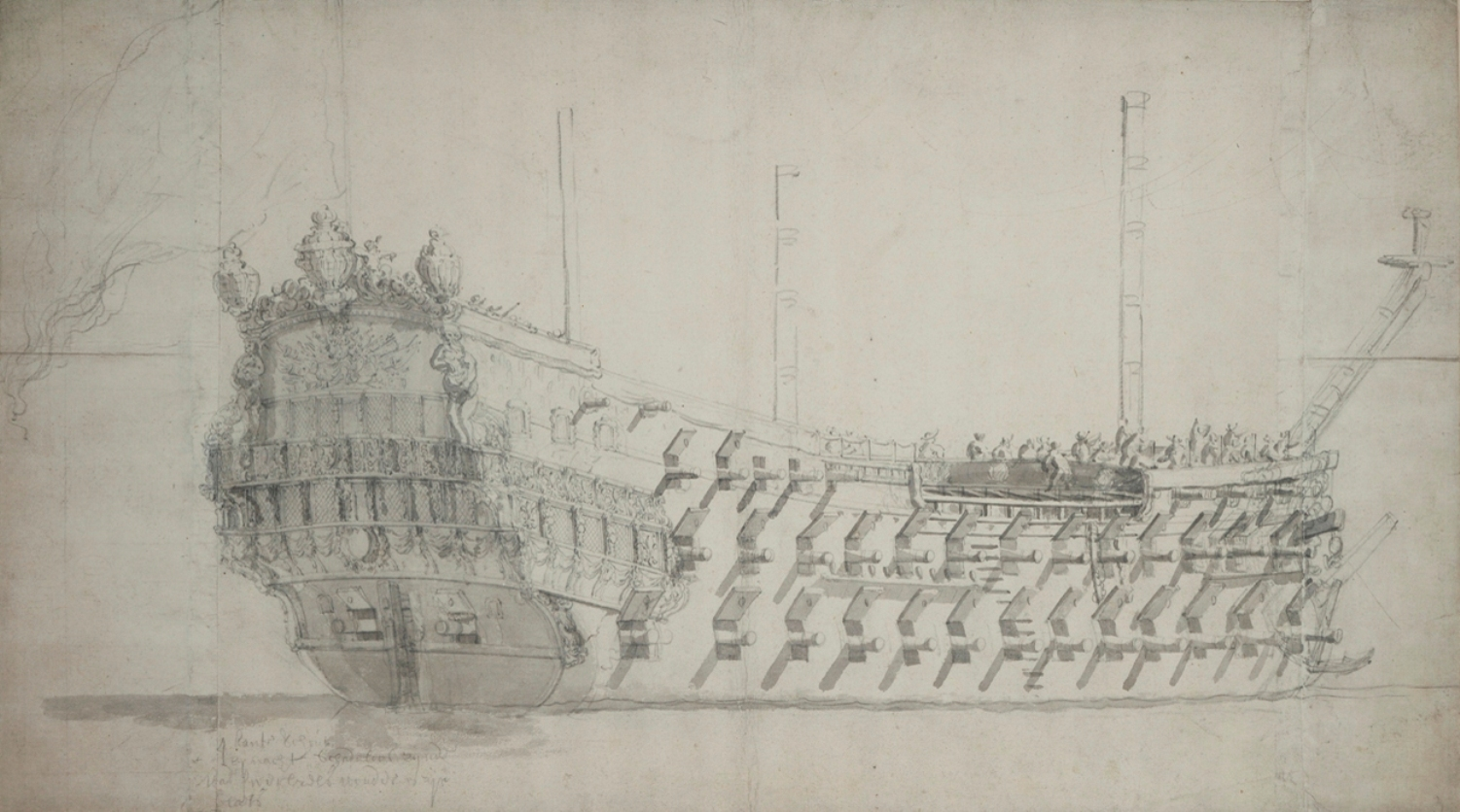 Presumed drawing of Royale Thérèse around 1673, at anchor in an English port at the start of the Holland War.